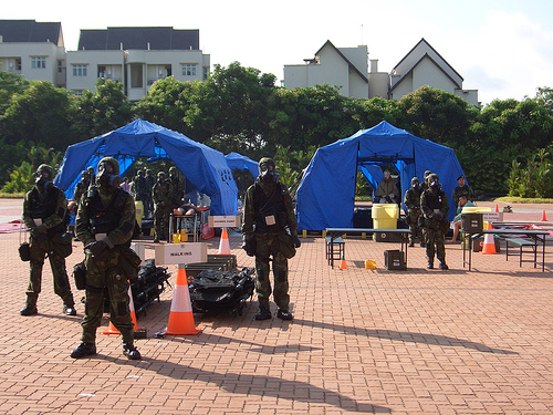 The Medical Response Force of the Chemical, Biological, Radiological and Explosive Defence Group (CBRE), Singapore Armed Forces, awaiting the arrival of casualties during an exercise.